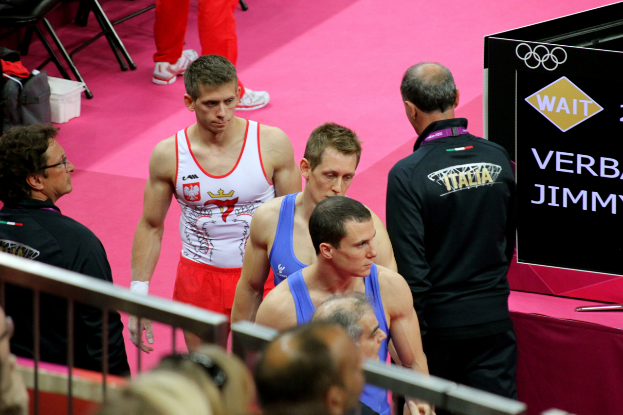 Roman Kulesz during Summer Olympics 2012.